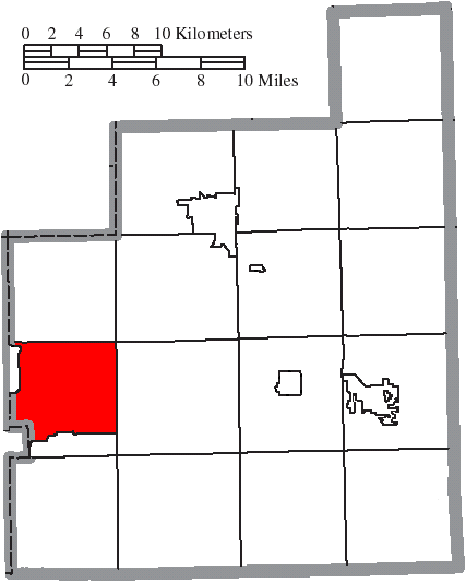 Map of the municipal and township boundaries of Geauga County, Ohio, United States, as of the 2000 census, with the location of Russell Township highlighted. Township borders are shown only in unincorporated areas in order to differentiate incorporated and unincorporated areas more clearly.